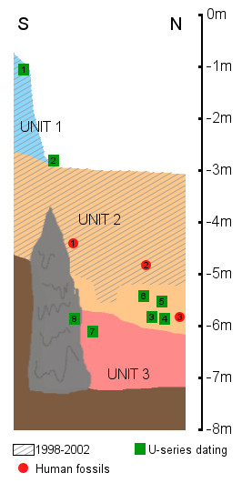 Aroeira stratigraphy